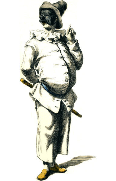 Punchinello